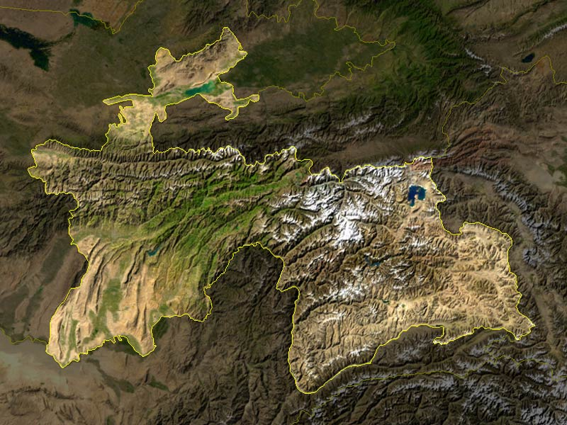 Image of Tajikistan based on a satellite picture.